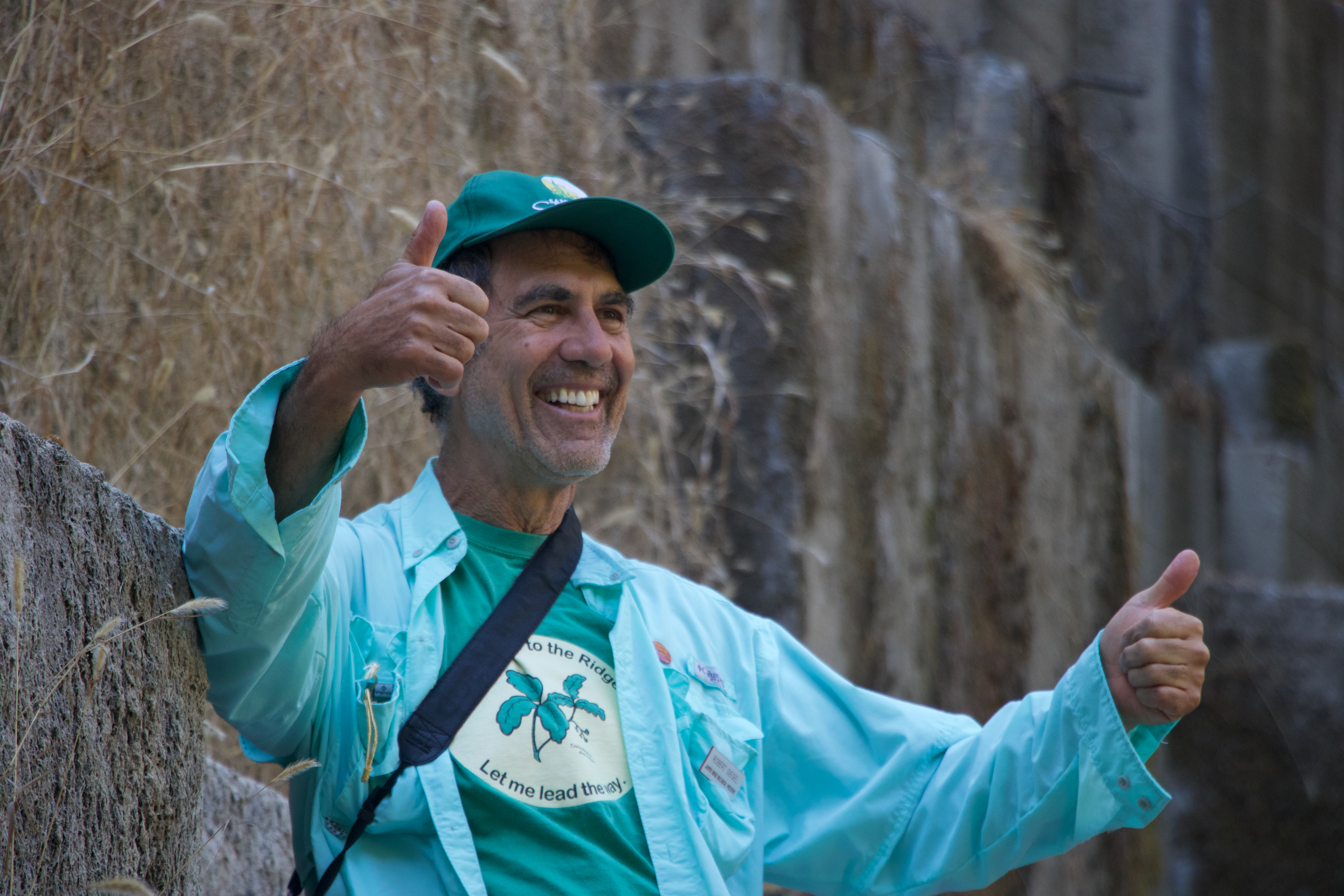 Robert David Siegel teaching the course Photographing Nature at Jasper Ridge Biological Preserve in Autumn 2019.